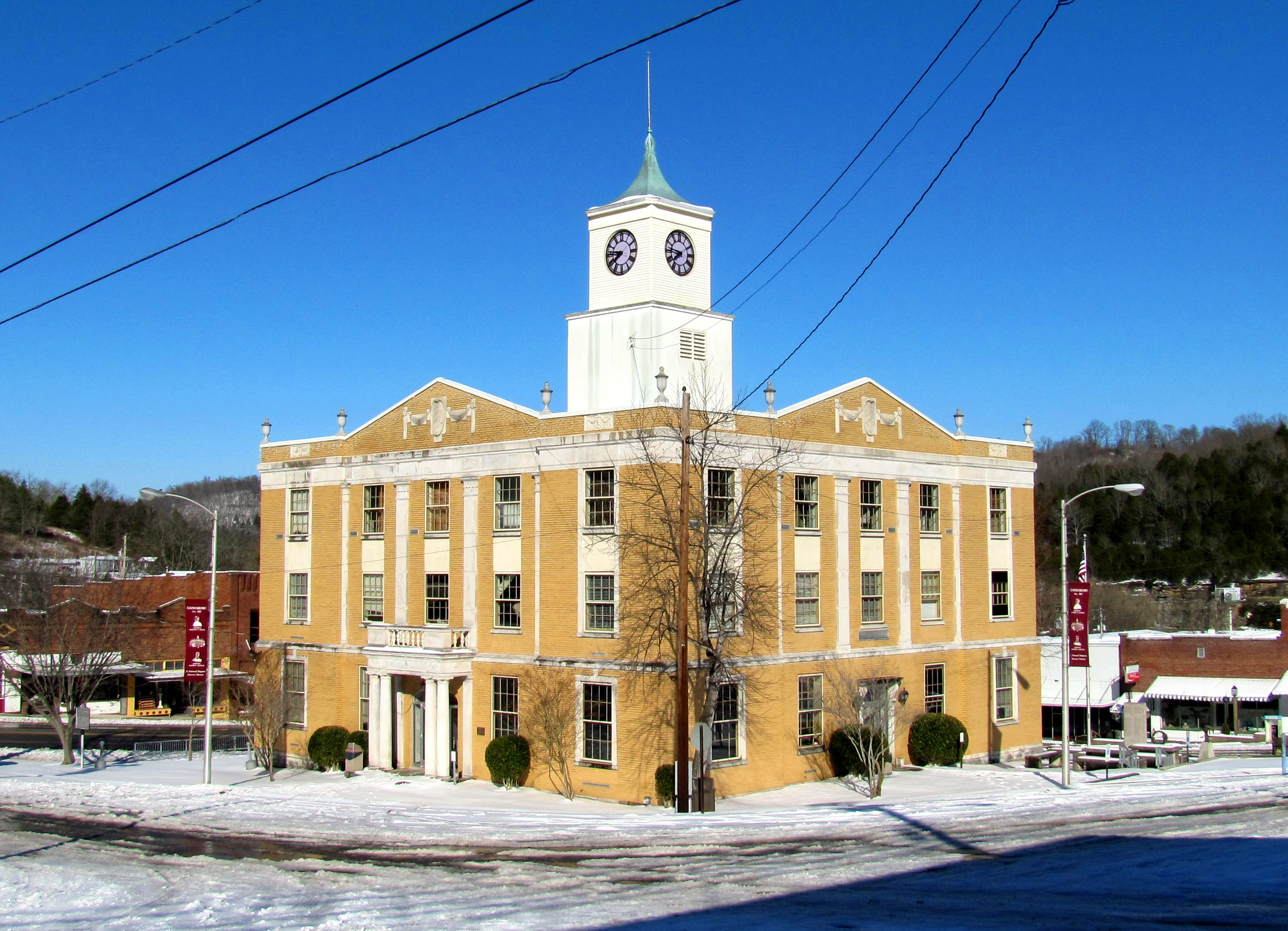 Jackson County Courthouse in Gainesboro, Tennessee, USA, viewed from the intersection of Union and Gore.